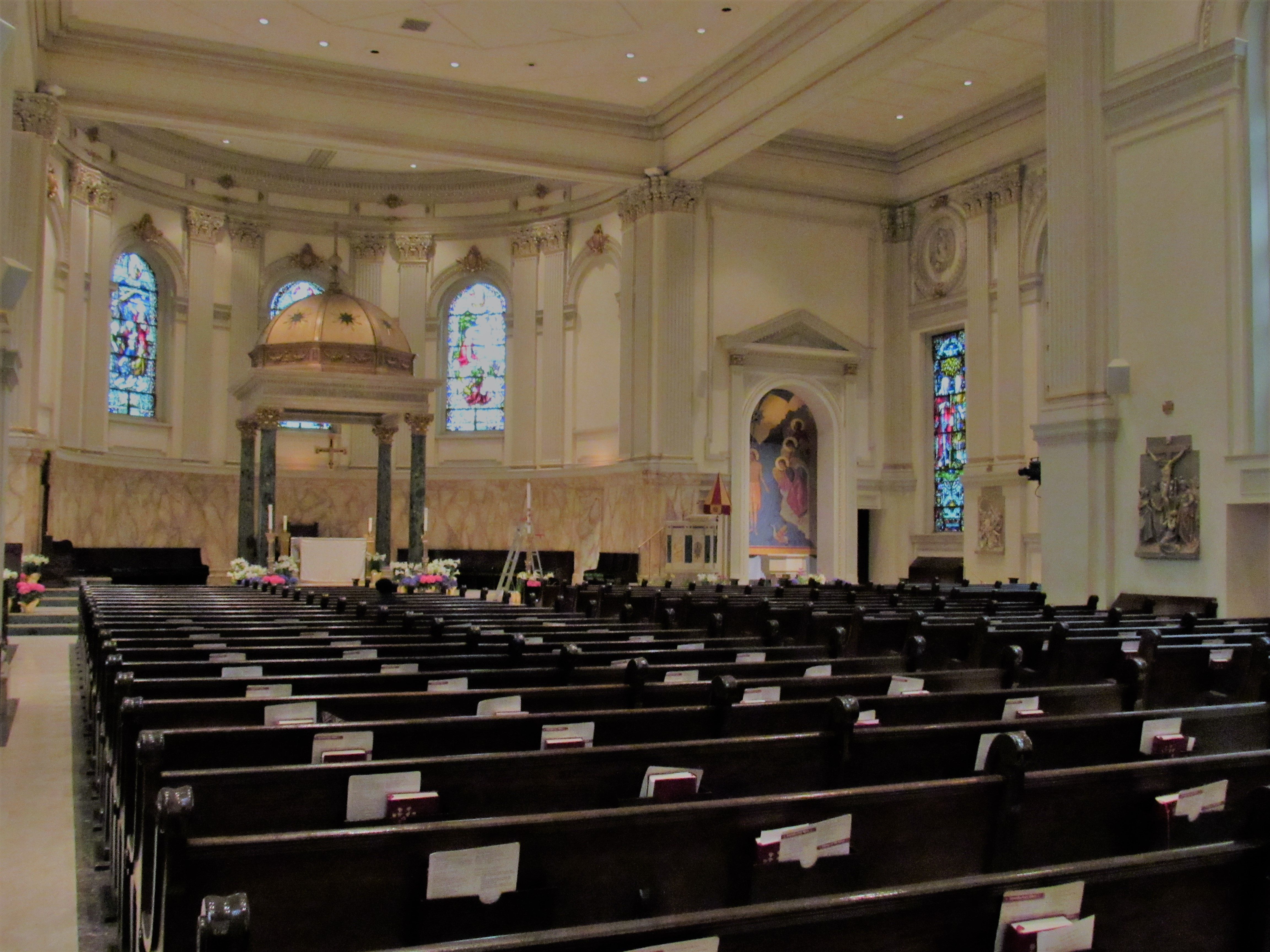 The interior of the Cathedral Basilica of St. James in Brooklyn, New York.